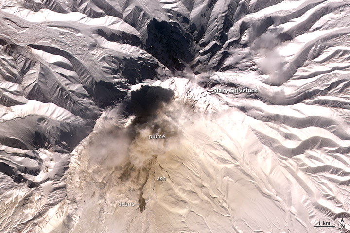 Shiveluch is one of the largest and most active volcanoes on Russia’s Kamchatka Peninsula. A lava dome is currently growing southwest of the 2,283-meter (10,771-foot) summit of Old Shiveluch. Frequent eruptions of ash and steam, dome collapses, pyroclastic flows, and extrusion of thick lava have accompanied growth of the dome for over a decade. The Kamchatkan Volcanic Eruption Response Team (KVERT) reported earthquakes, ash plumes, avalanches of incandescent rocks, and a viscous lava flow from March 20–22. In this false-color satellite image an ash rich plume rises above the dome complex. Brown ash covers the nearby snow, and dark debris (likely fresh volcanic material from the steep lava dome) stretches directly south of the plume. Whitish snow covers the rest of the mountainous scene. This image was taken on March 26, 2010, by the Advanced Spaceborne Reflection and Emission Radiometer (ASTER) aboard NASA’s Terra satellite.